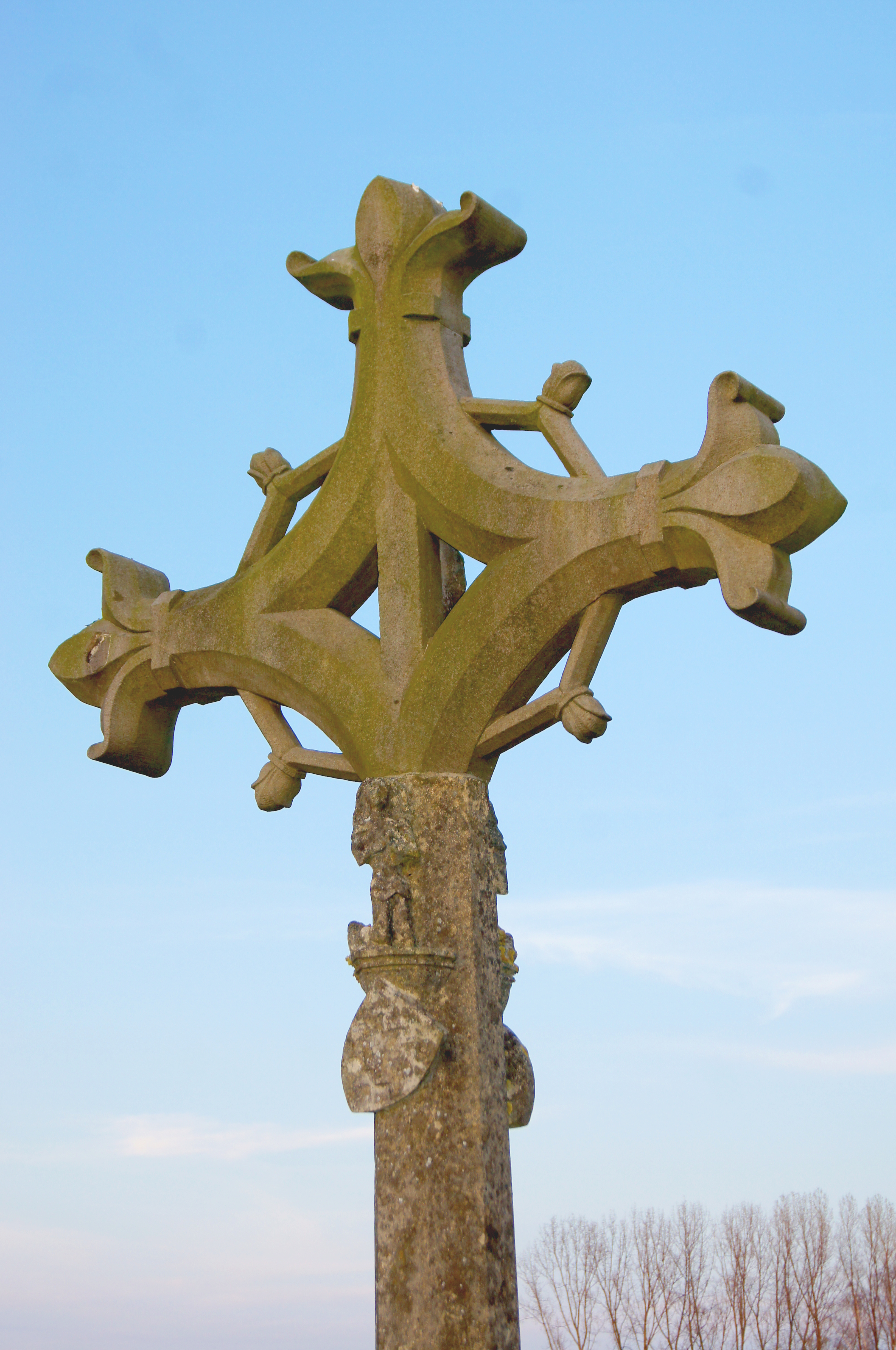 Poppenbecker Kreuz is a stone cross made of Baumberg-limestone in Havixbeck. This is a photograph of an architectural monument.